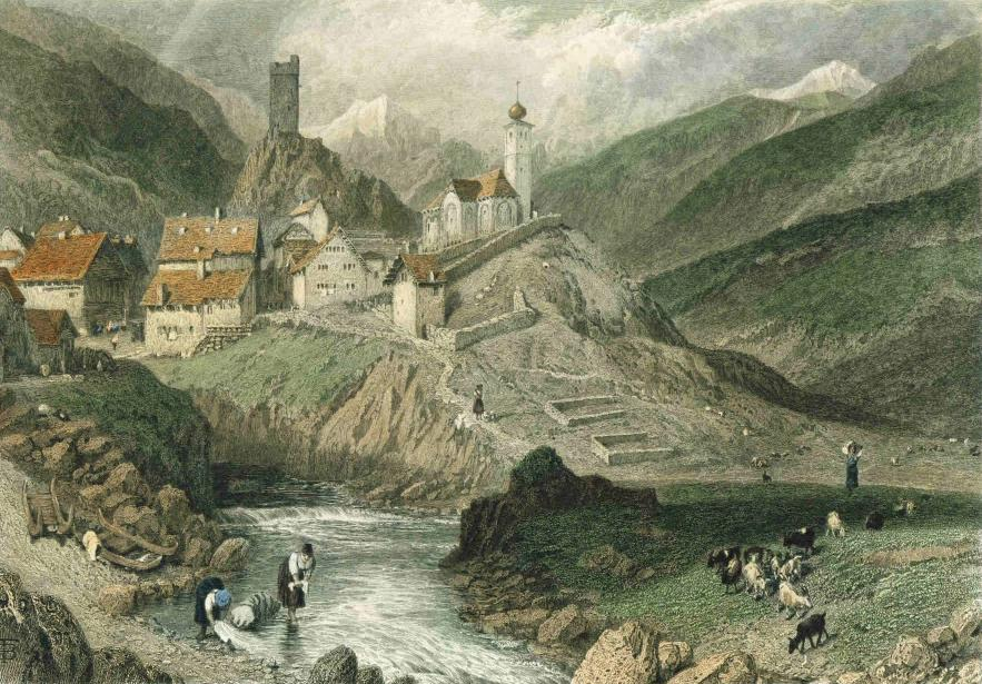 Antique steel engraving entitled Hospenthal published c. 1875 by Cassell & Company Limited of London